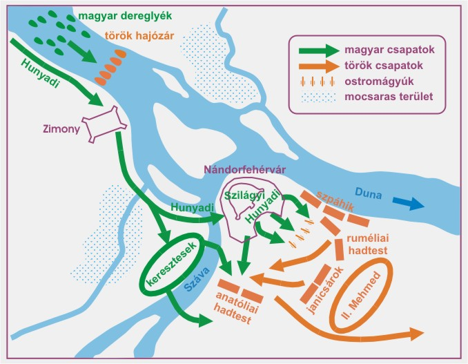 Summary (műszaki probléma megoldásáig JPG-ben) Licensing This work is in the public domain in its country of origin and other countries and areas where the copyright term is the author's life plus 70 years or less. You must also include a United States public domain tag to indicate why this work is in the public domain in the United States. Note that a few countries have copyright terms longer than 70 years: Mexico has 100 years, Jamaica has 95 years, Colombia has 80 years, and Guatemala and Samoa have 75 years. This image may not be in the public domain in these countries, which moreover do not implement the rule of the shorter term. Côte d'Ivoire has a general copyright term of 99 years and Honduras has 75 years, but they do implement the rule of the shorter term. Copyright may extend on works created by French who died for France in World War II (more information), Russians who served in the Eastern Front of World War II (known as the Great Patriotic War in Russia) and posthumously rehabilitated victims of Soviet repressions (more information). This file has been identified as being free of known restrictions under copyright law, including all related and neighboring rights.